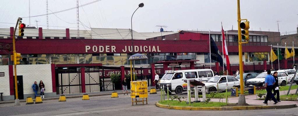 Front of the head office of the court of North Lima